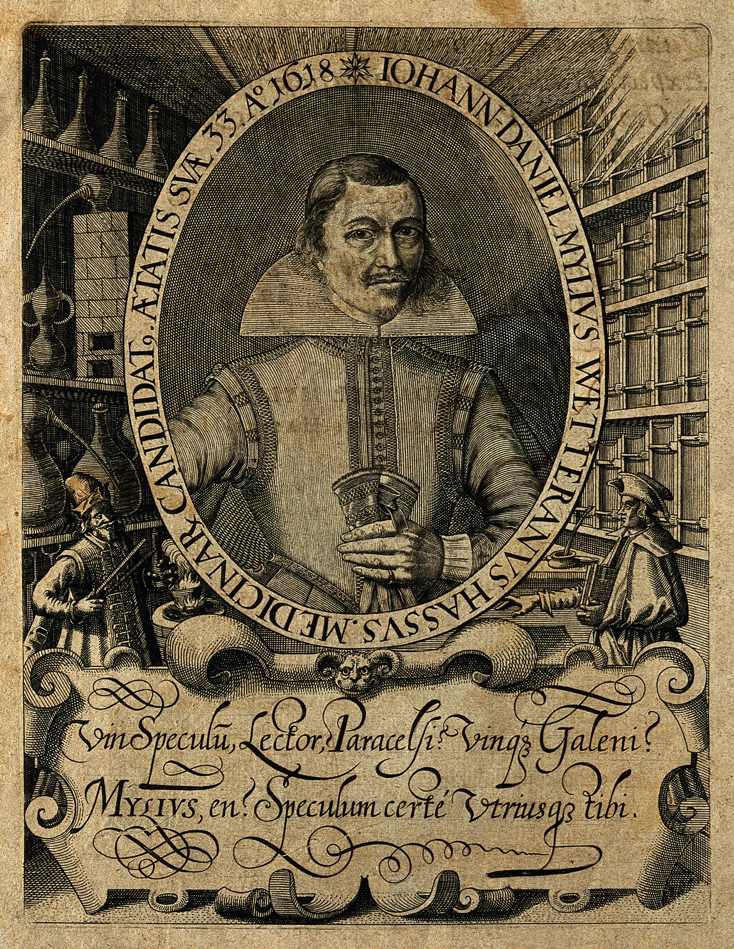 Johannes Daniel Mylius. Line engraving, 1620. Iconographic Collections Keywords: portrait prints; Johann Daniel Mylius; engravings